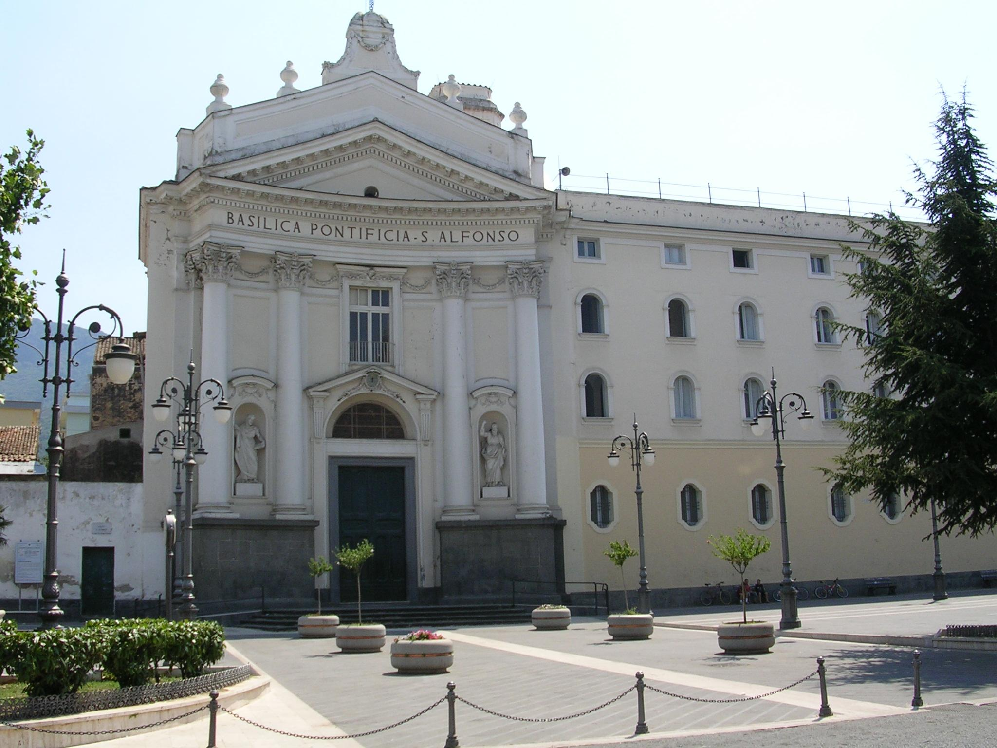 Basilica Pontificia di Sant'Alfonso Maria de' Liguori, at Pagani